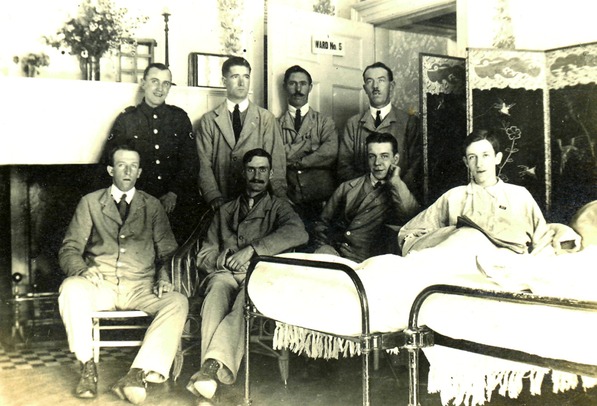 Wounded soldiers at Stapeley House during World War I